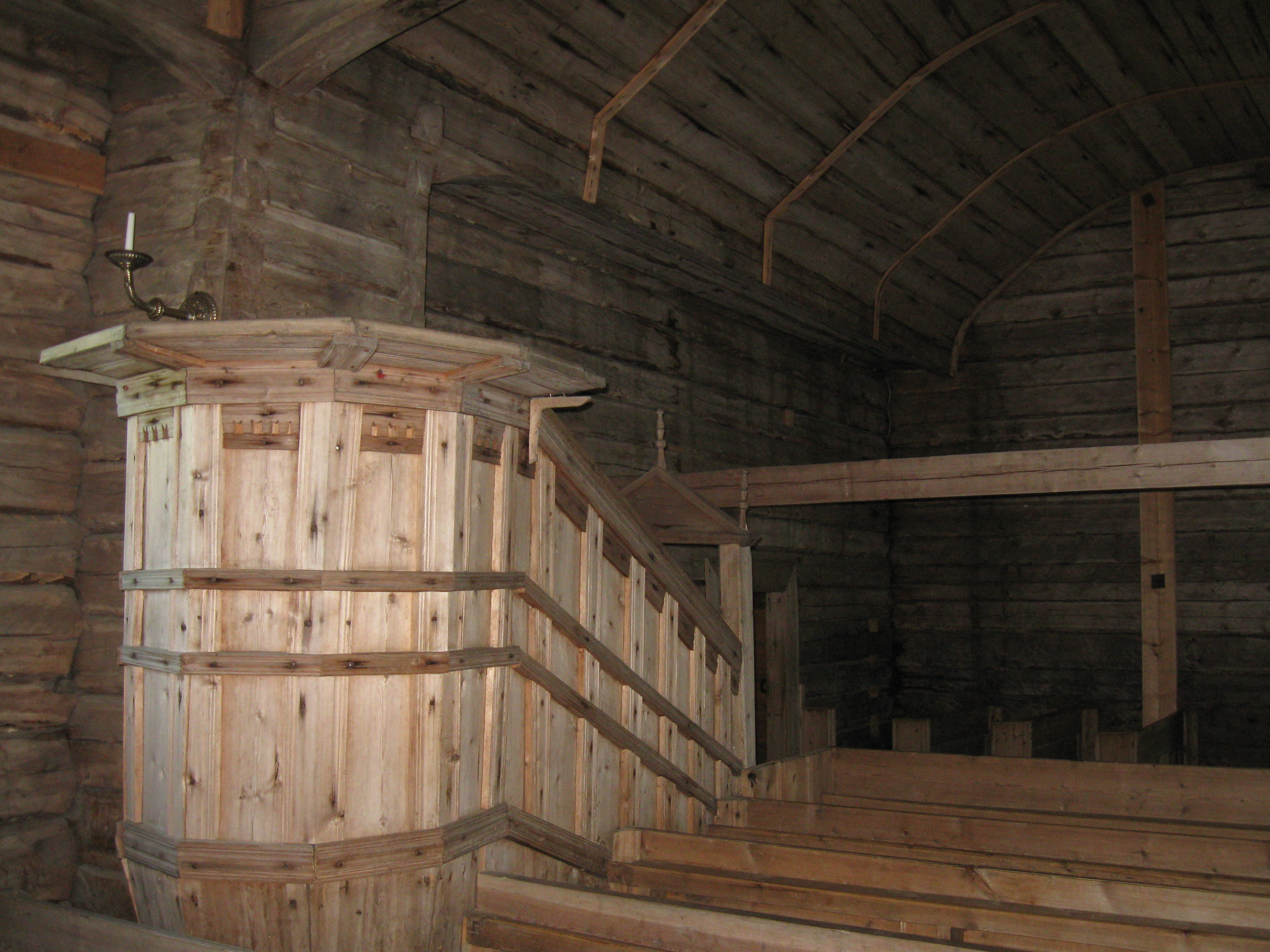 The pulpit of the old church of Sodankylä, Finland.